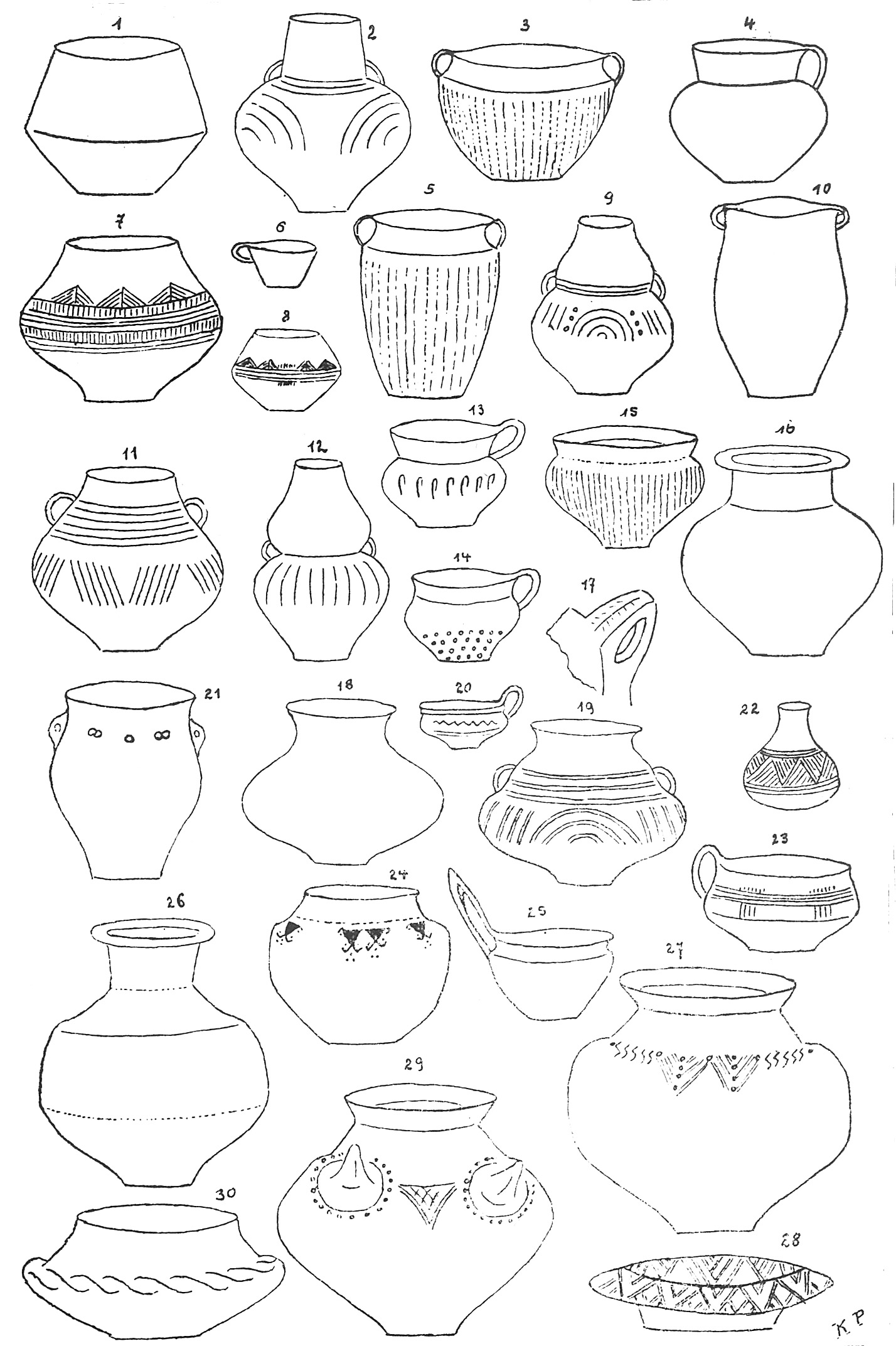 1–10: Lusatian culture; 11–17: Knovíz culture; 18–23: Silesian culture; 24–28: pottery of the western part of the Bylany culture; 29–30: pottery of the eastern part of the Bylany culture